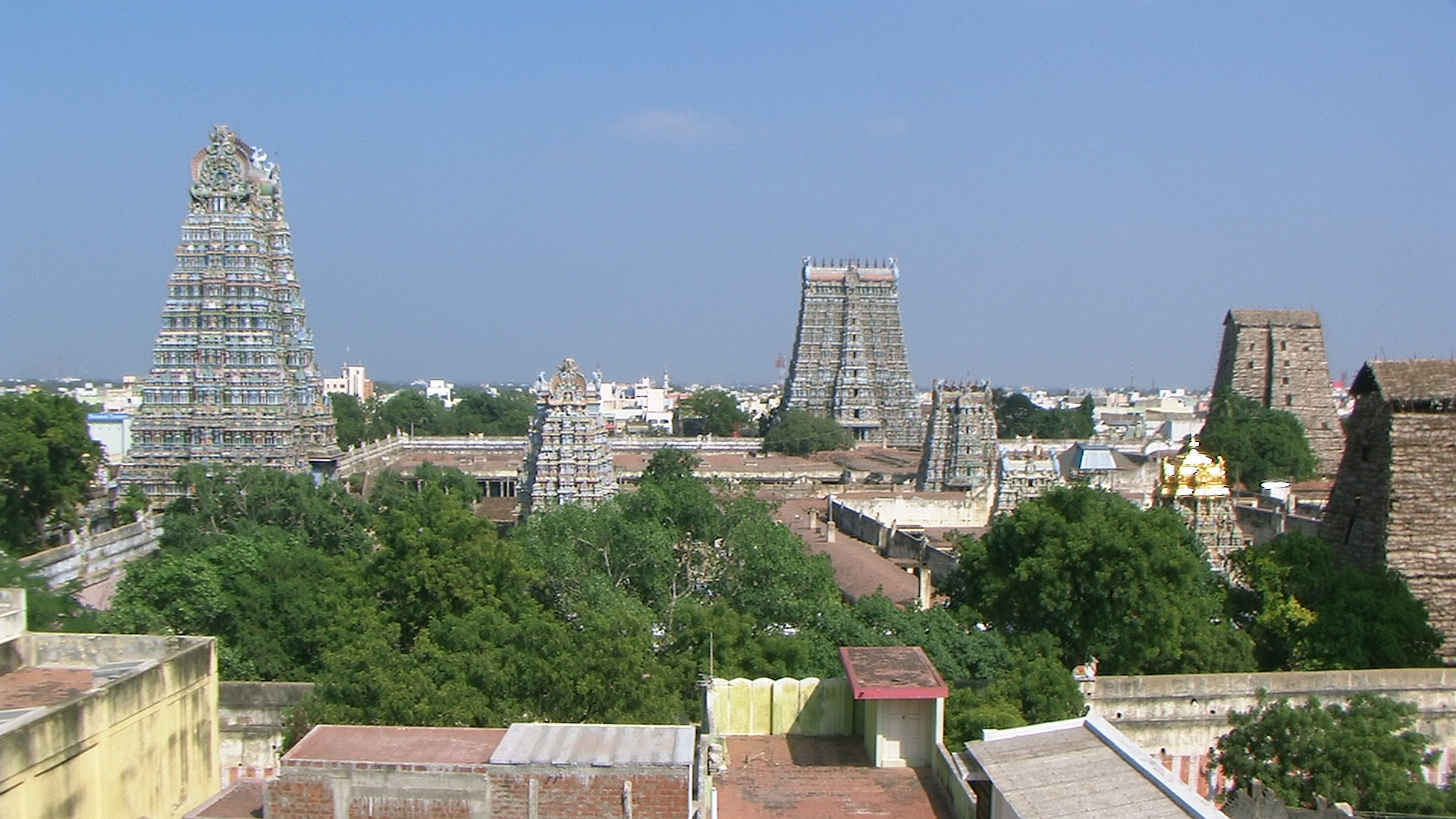 View of the Madurai Meenakshi temple